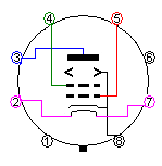 This is a graphic that was found on the French Wikipedia and listed there as GFDL. I have cut away the explanatory text in lieu of translating it. The is also under GFDL. This pinout applies to most of the Beam Power tubes, notably the 6V6, 6L6, and 50L6: 1: No connection 2: Heater filament 3: Anode 4: Screen 5: Grid 6: No connection 7: Heater filament 8: Cathode.